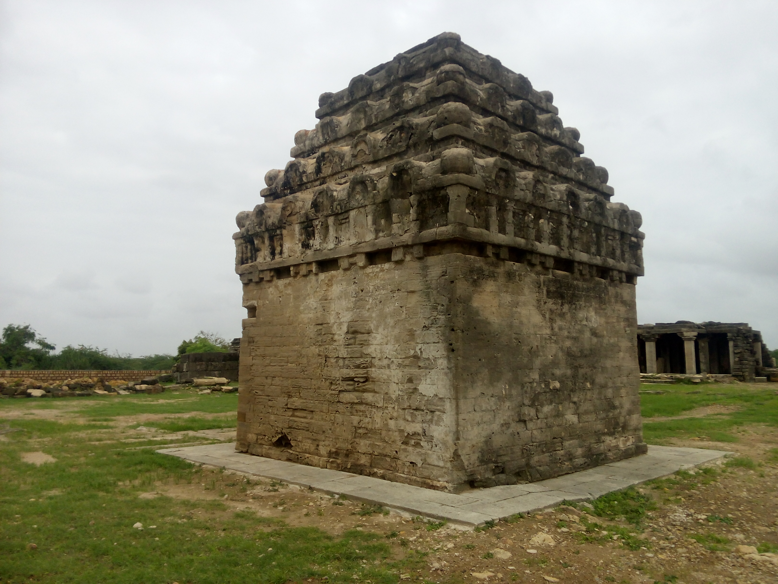 Dhyan Mandir, The only complete (less damaged) structure in complex. Known as meditation room (Dhyan Mandir) , used by Shri Durvasa Rishi for meditation (Dhyan).